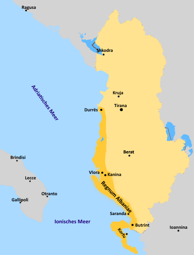 The approximate location of medioeval Kingdom of Albania in 1272; This work is based on different books such as Peter Bartl: Albanien - Geschichte, Alain Demurger: Der letzte Templer: Leben und Sterben des Grossmeisters Jacques de Molay. C.H. Beck, München 2015, Peter Herde: Carlo I d'Angiò, re di Sicilia, llgemeine Encyklopädie der Wissenschaften und Künste. Erste Section A–G. Hermann Brockhaus, Leipzig 1867